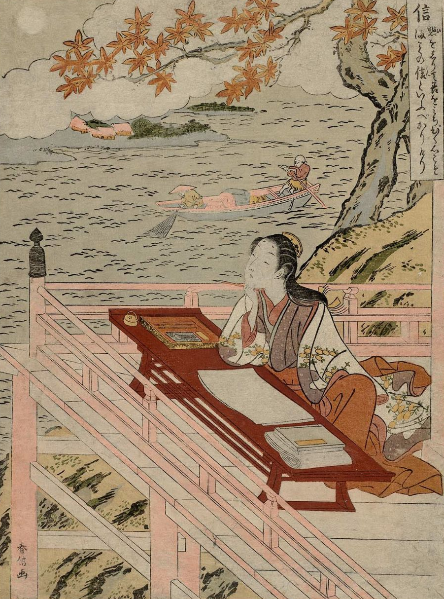 Murasaki Shikibu at Ishiyama-dera